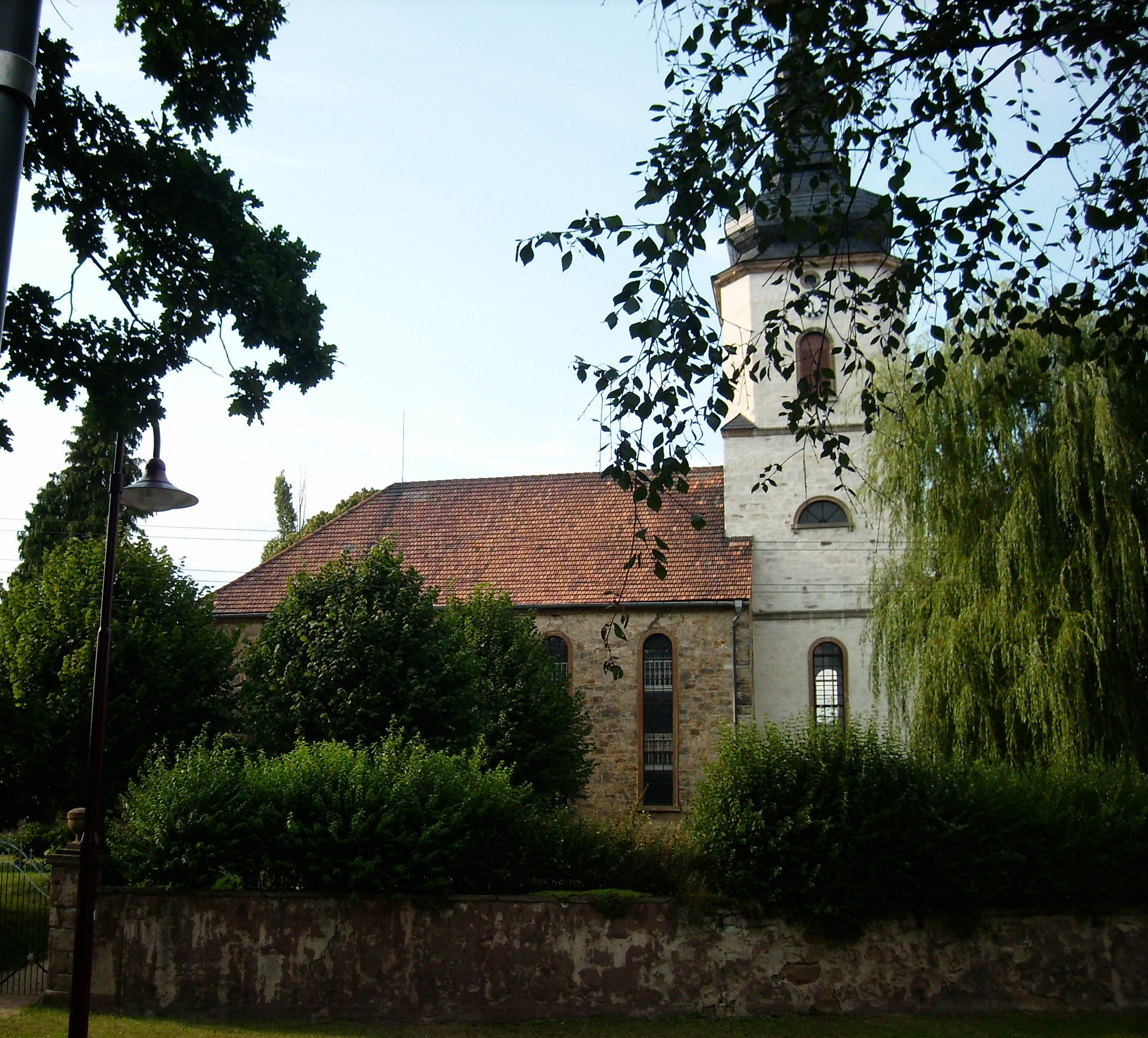 Church in Königshofen (Heideland, district of Saale-Holzland-Kreis, Thuringia)